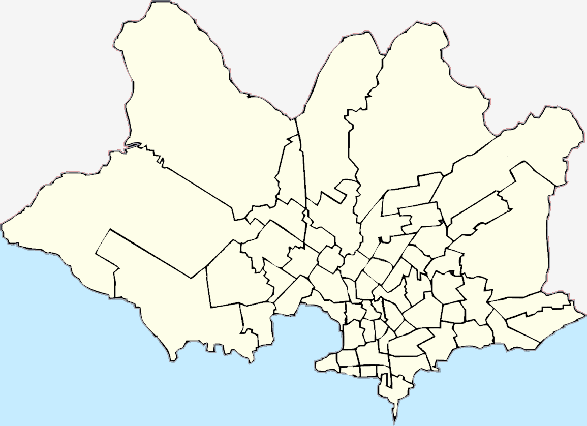 Blank map of the barrios of Montevideo